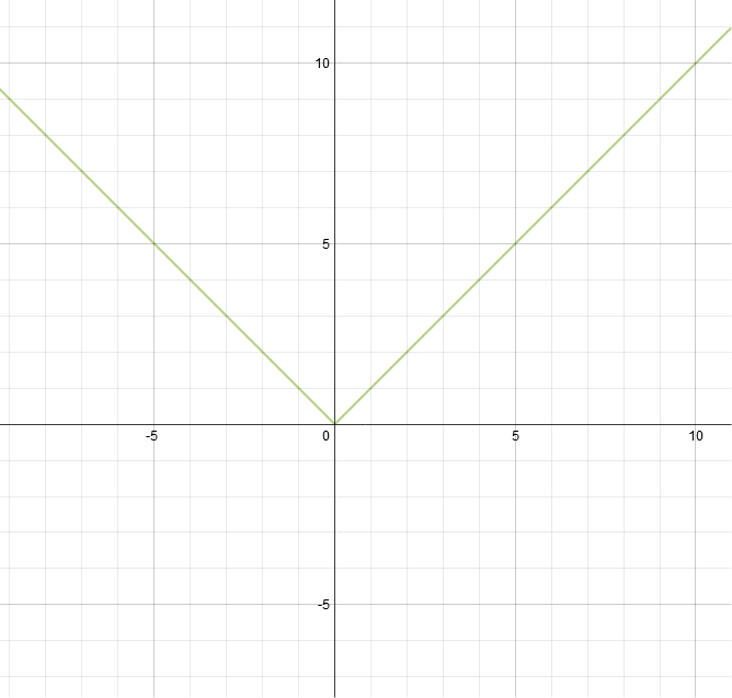 Modulus function Graph